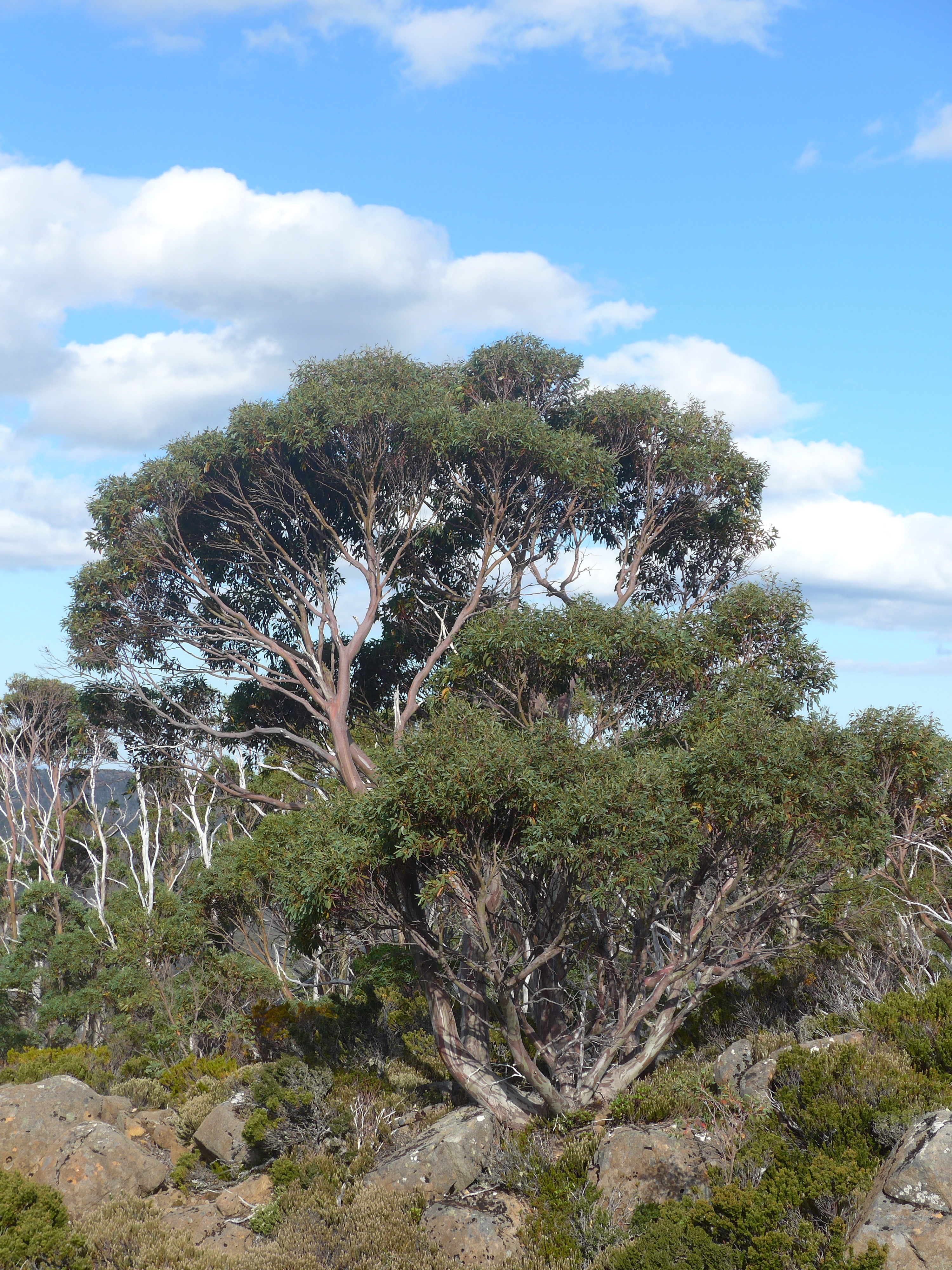 Taken in Mt. Field National Park, around 1200m above sea level.